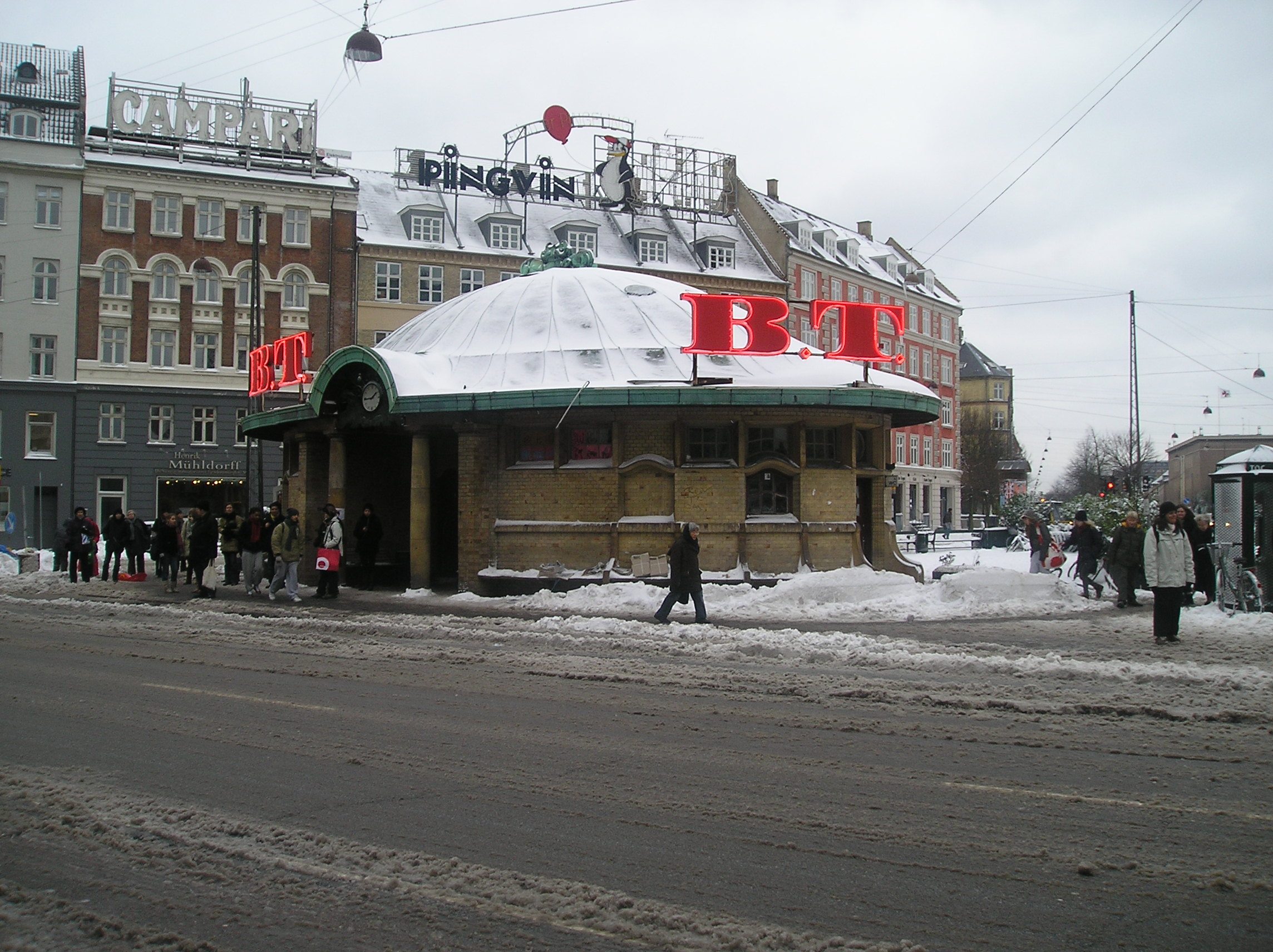 The waiting building known as Bien (The bee) on Trianglen in Copenhagen.